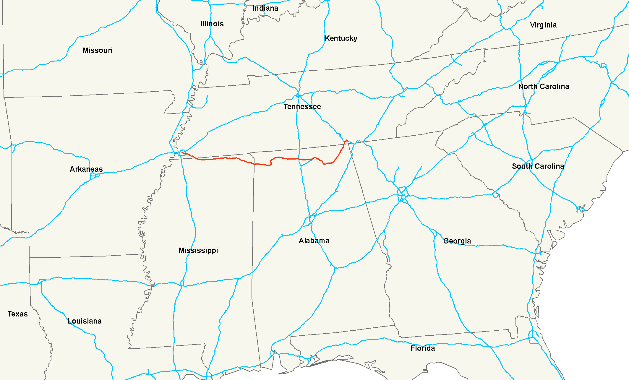 Map of U.S. Route 72